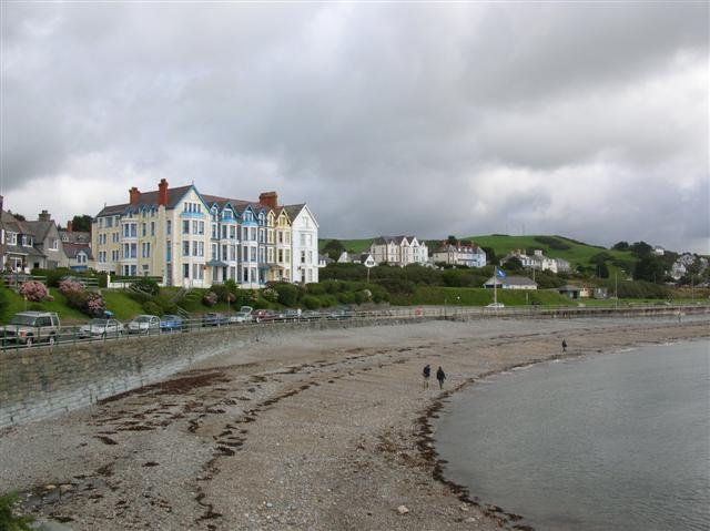 Criccieth. The beach front at Criccieth. The castle is behind.